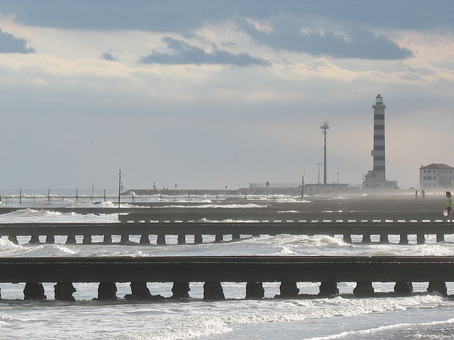 Jesolo (Venice, Italy): Lighthouse and piers